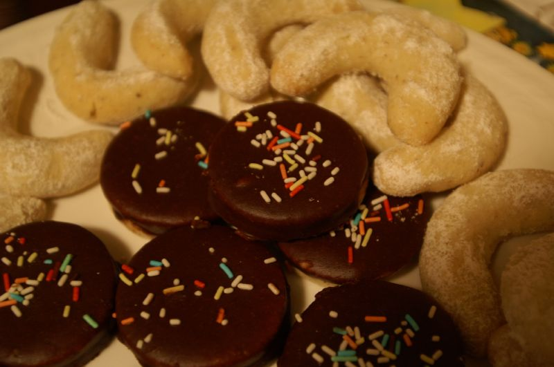 Vanillekipferl and Reisnerkrapferl